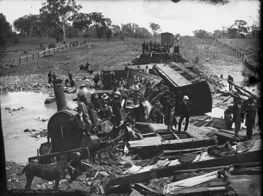 Cootamundra railway derailment at Salt Clay Creek, eight people were killed and twenty injured after heavy rain washed the railway embankment on 25 January 1885.